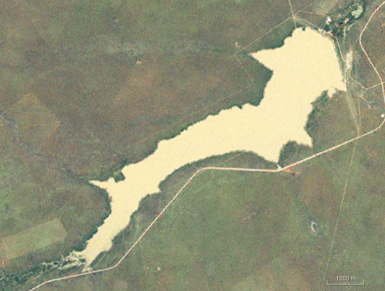 Satellit photo of Lake Omatako